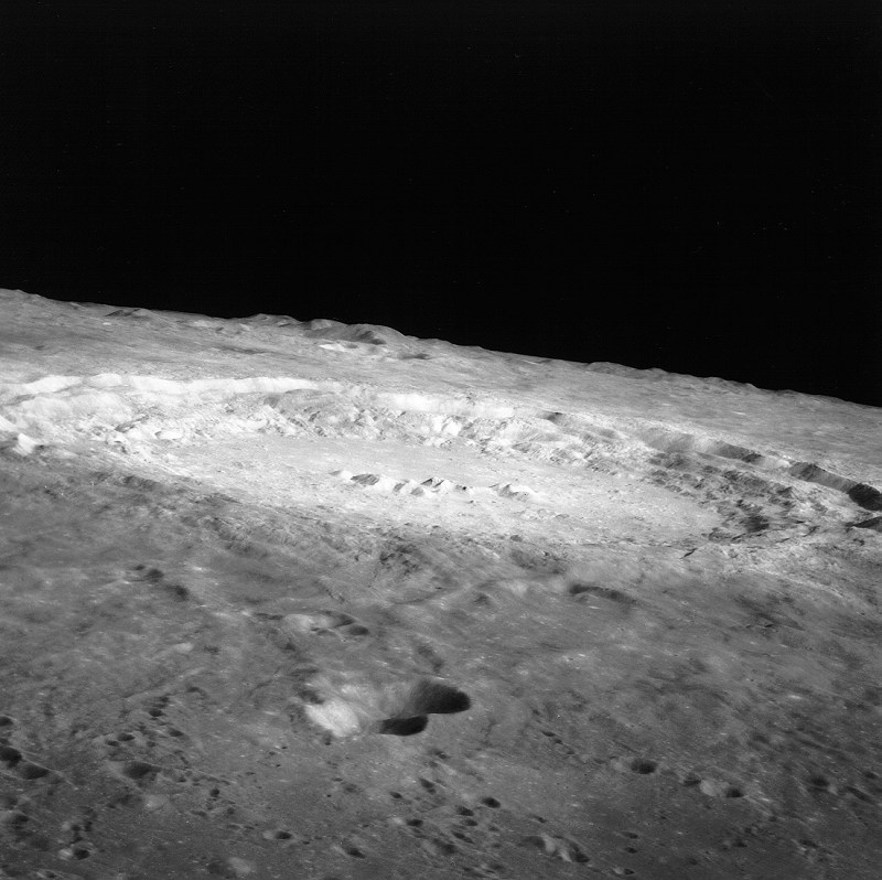 A view of Copernicus crater taken from lunar orbit by Apollo 12. The view is looking north. The keyhole-shaped double crater in the foreground are Fauth and Fauth A.